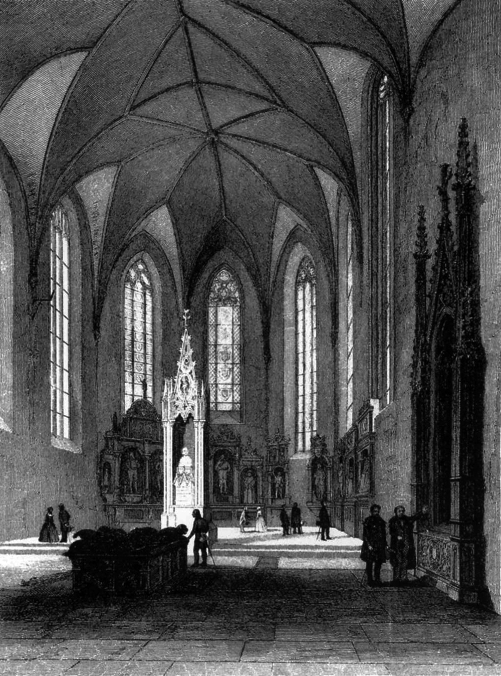 Interior of St. Michael's in Pforzheim - steel engraving by Louis Friedrich Hoffmeister, ca. 1840.